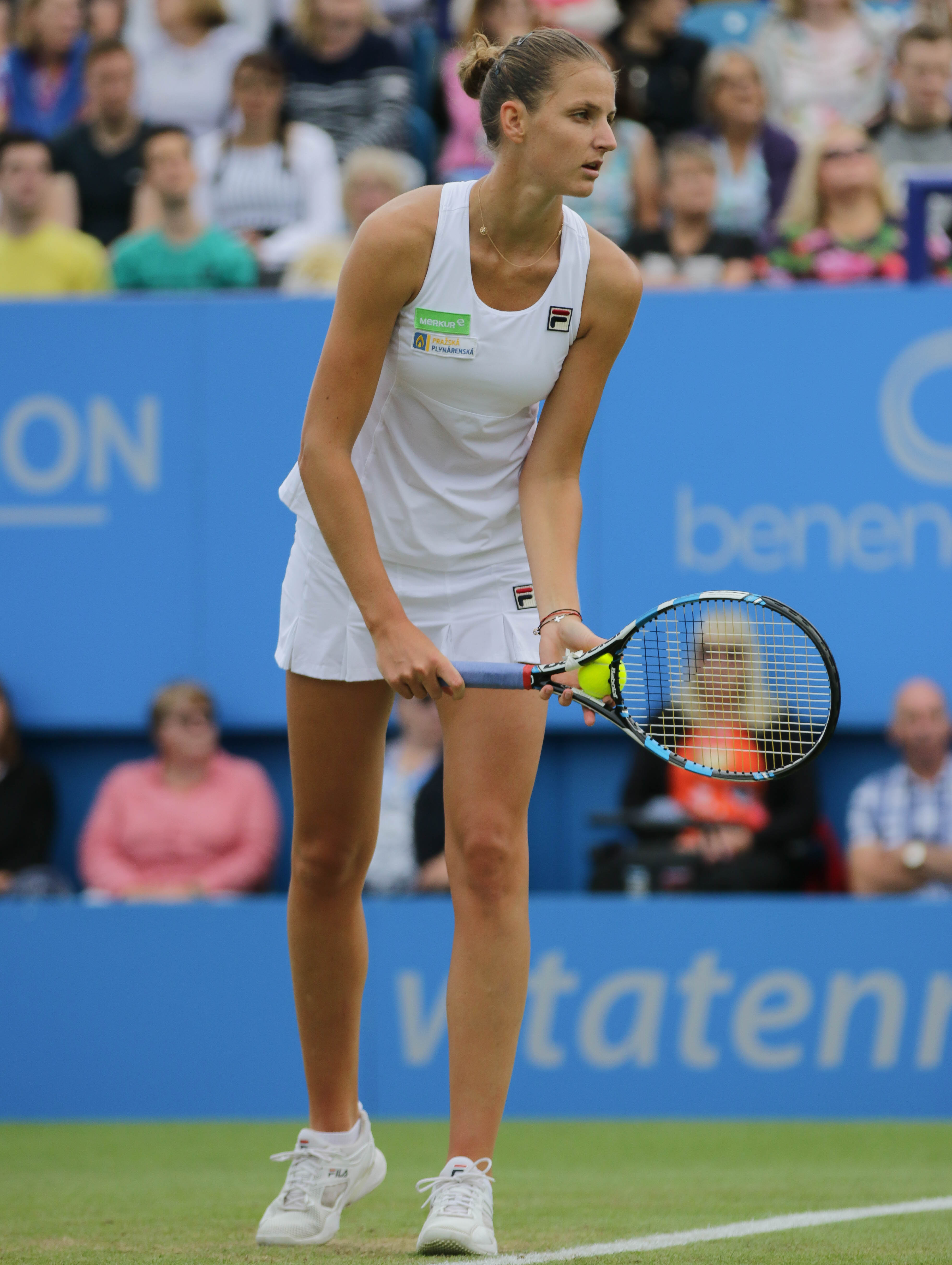 Aegon International Women's Final 2017 Pliscova v Wozniacki-338.jpg